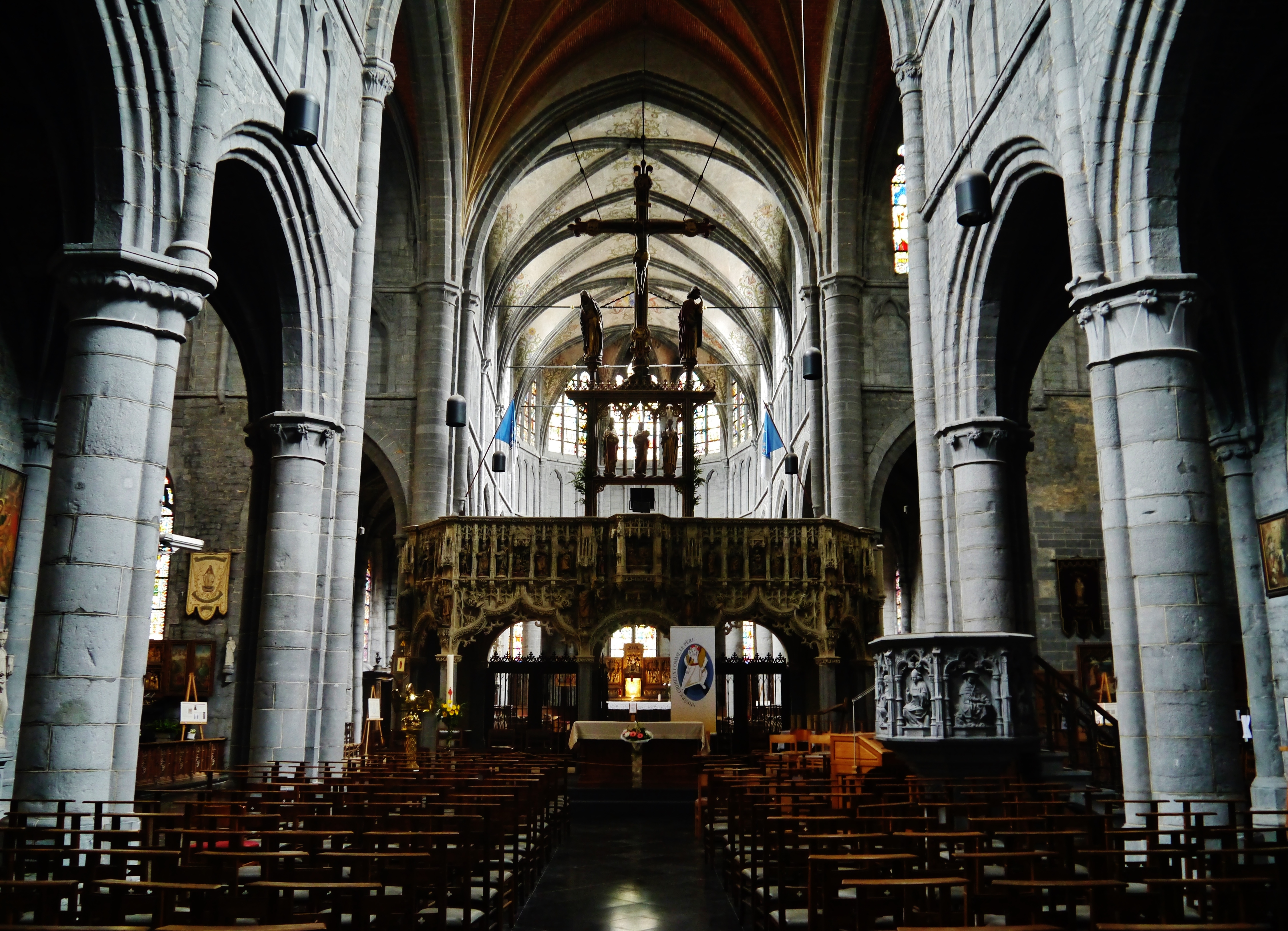 Nave of the Basilica St. Materne, Walcourt, Province of Namur, Wallonia, Belgium